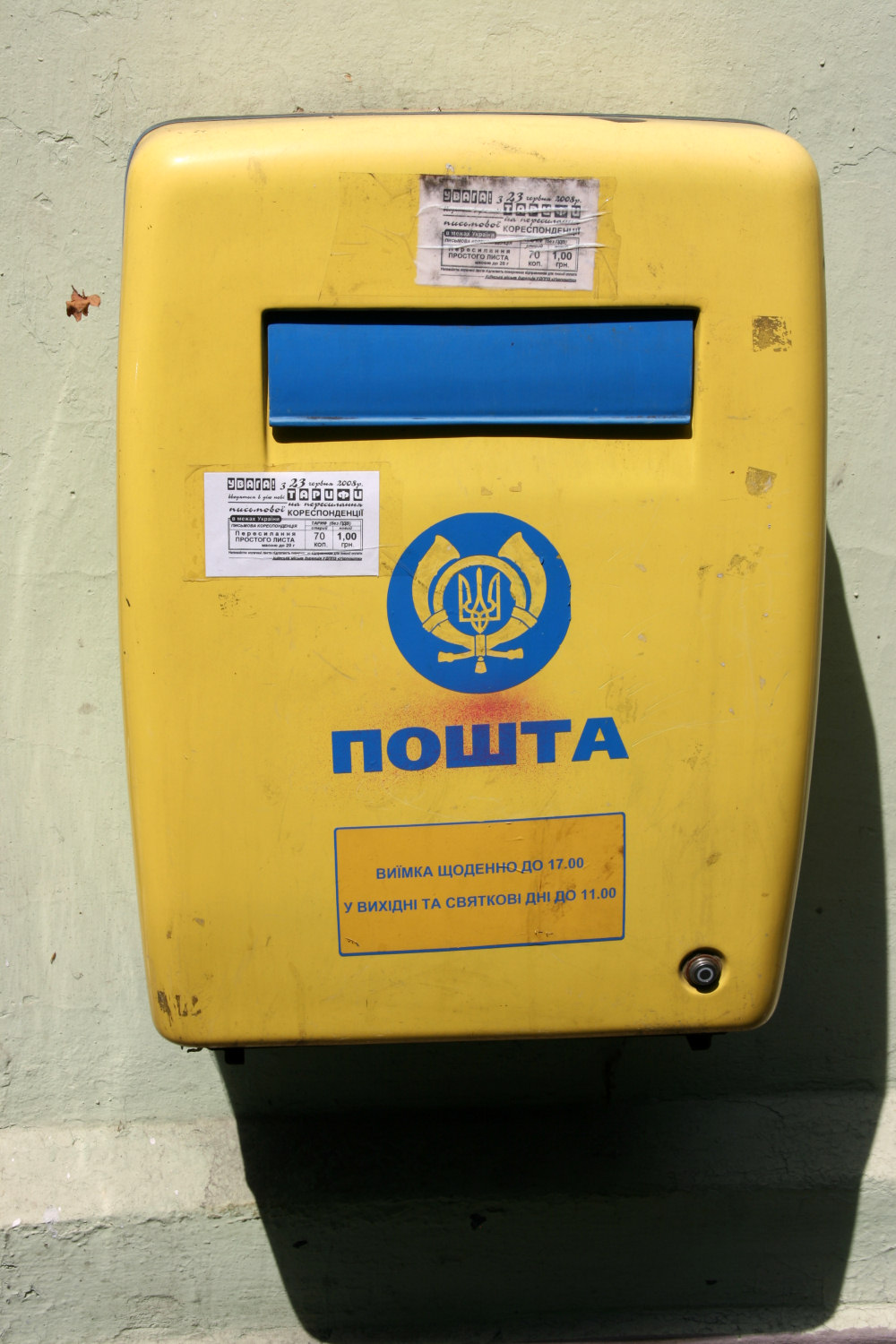 Postbox in Kiev, Ukraine.